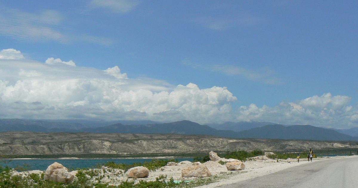 Shore of Etang Saumâtre, Haiti, near crossing into Domincan Republic at Jimaní